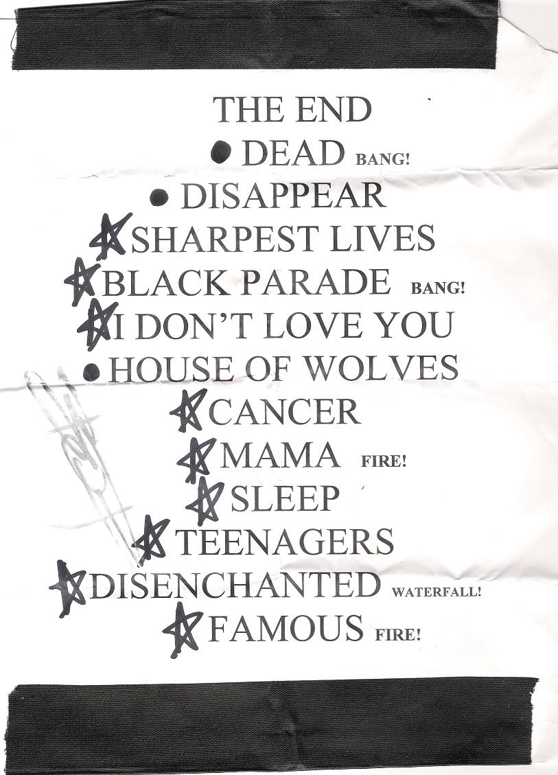 Songlist of The Black Parade section, played in The Black Parade World Tour, by the group My Chemical Romance. Beside there appear the special effects realized in each song.